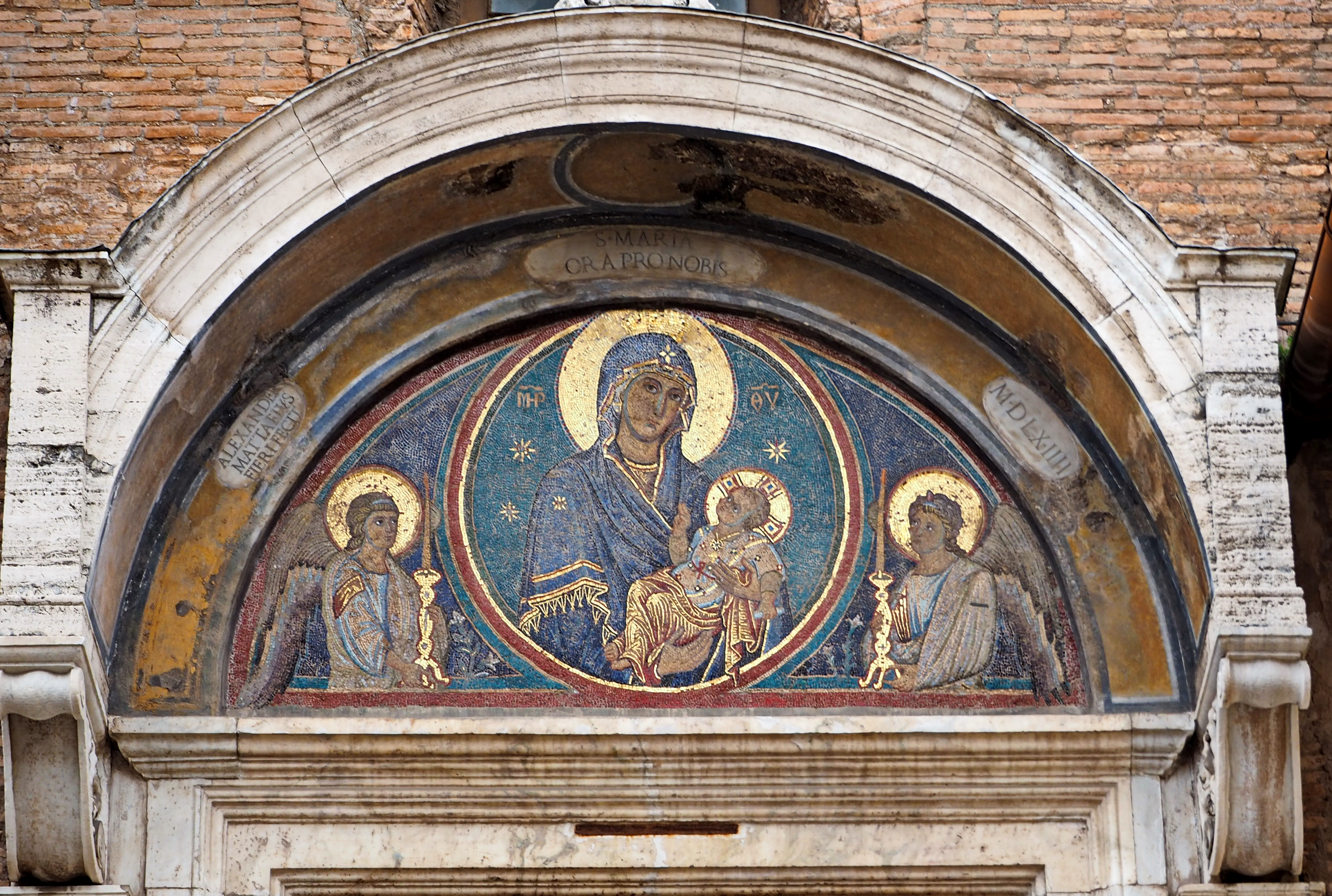 Santa Maria in Aracoeli (Rome); Mosaik over the lateral entrance